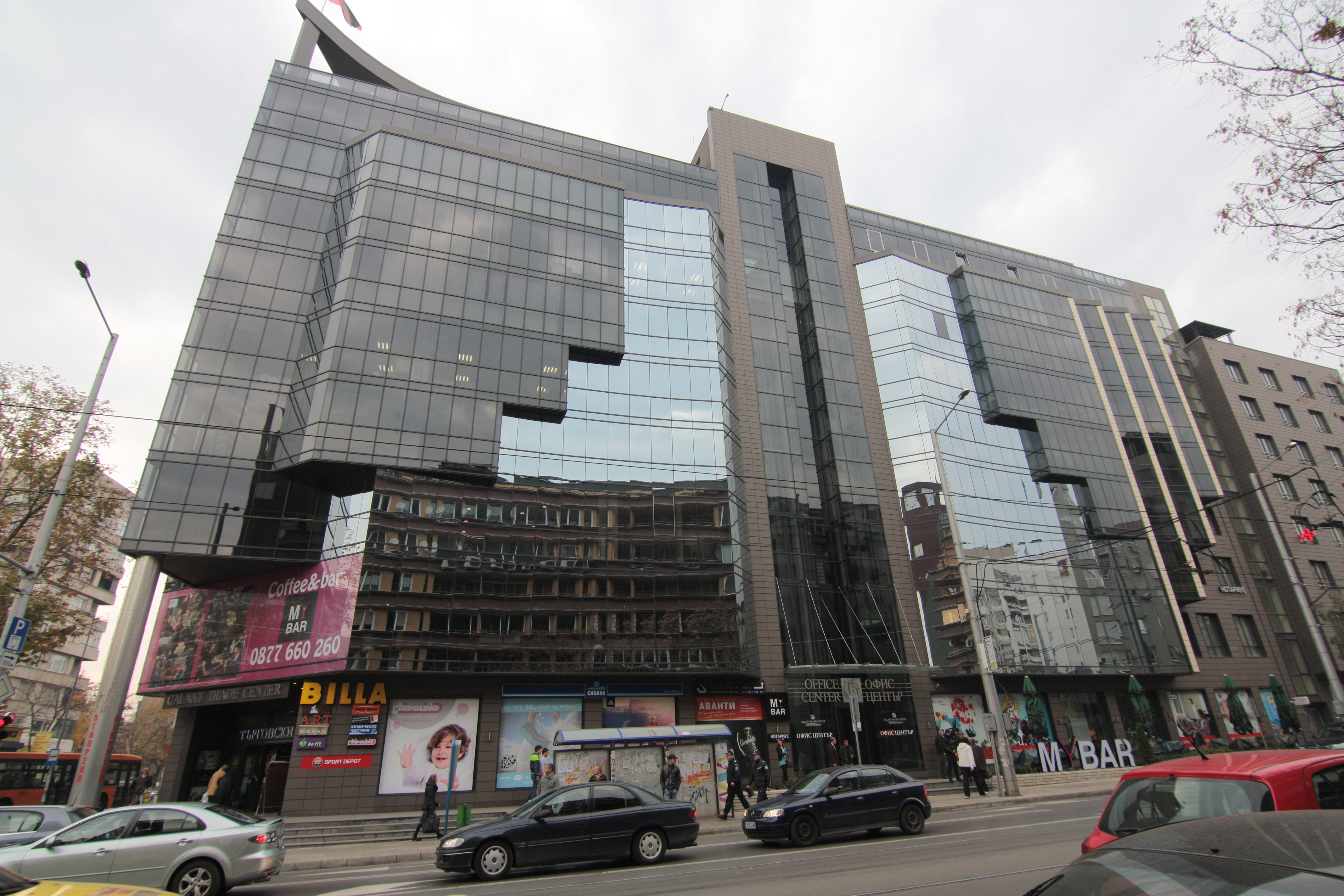 Galaxi Trade Center, bul. Shipchenski prohod, Sofia, Bulgaria